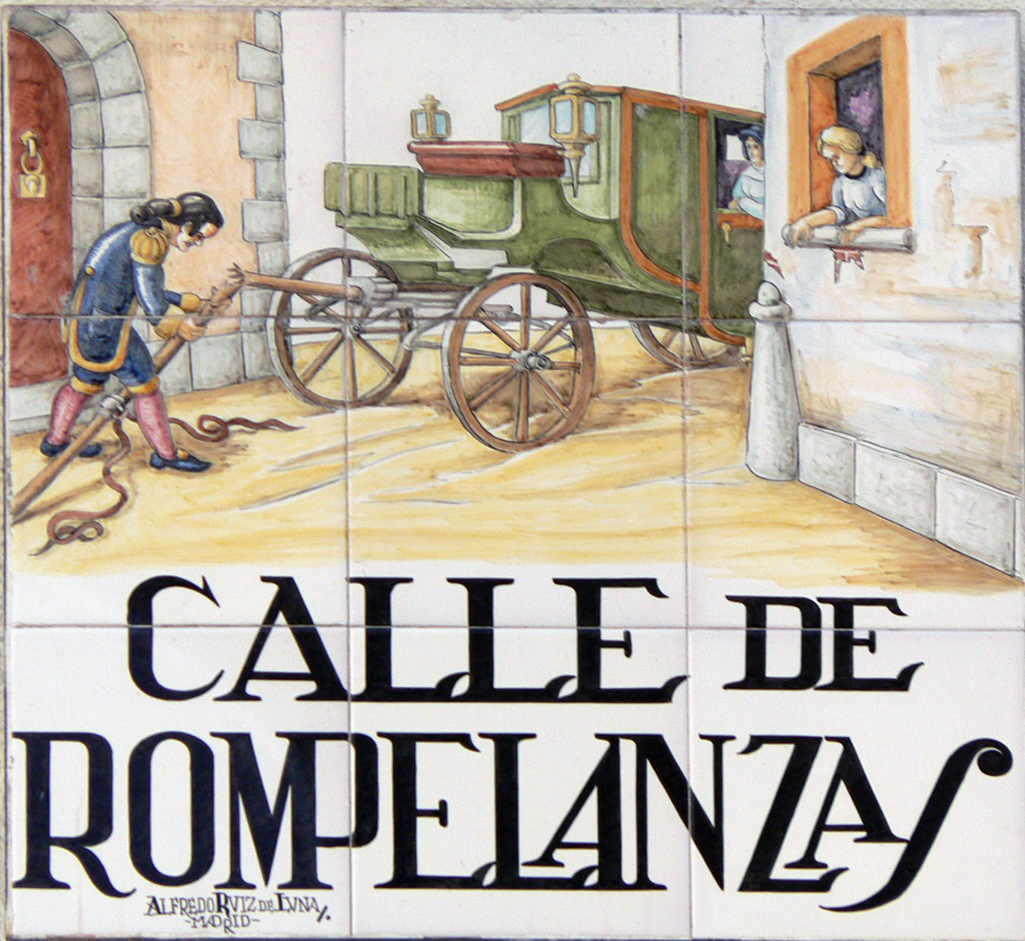 Sign of Calle de Rompelanzas (street, Centro district) in Madrid (Spain).